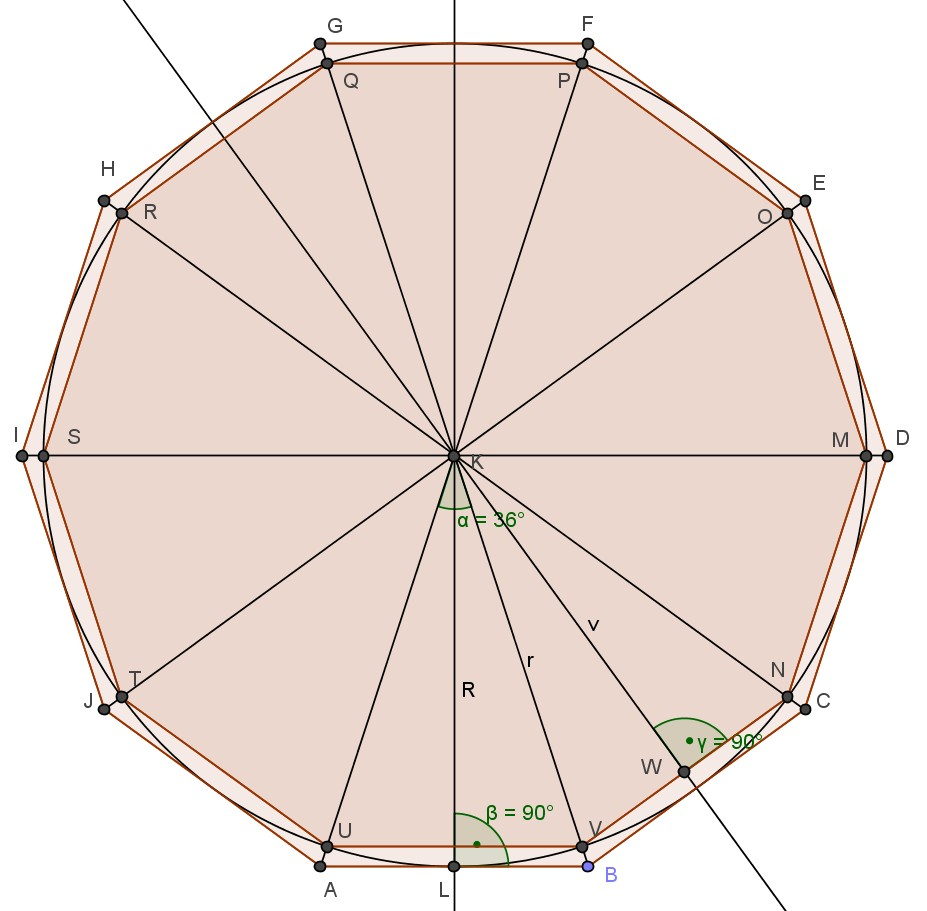 Image shows inscribed and described polygon. It is made in Geogebra.